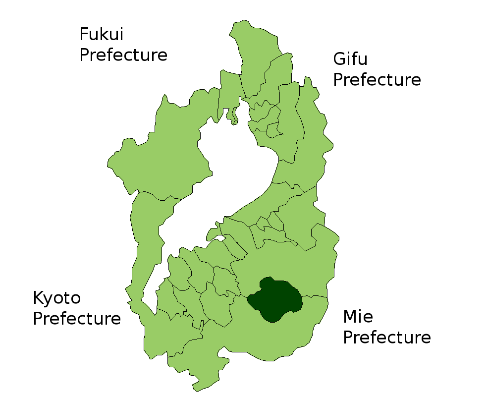 Location Map of Hino in Shiga Prefecture, Japan